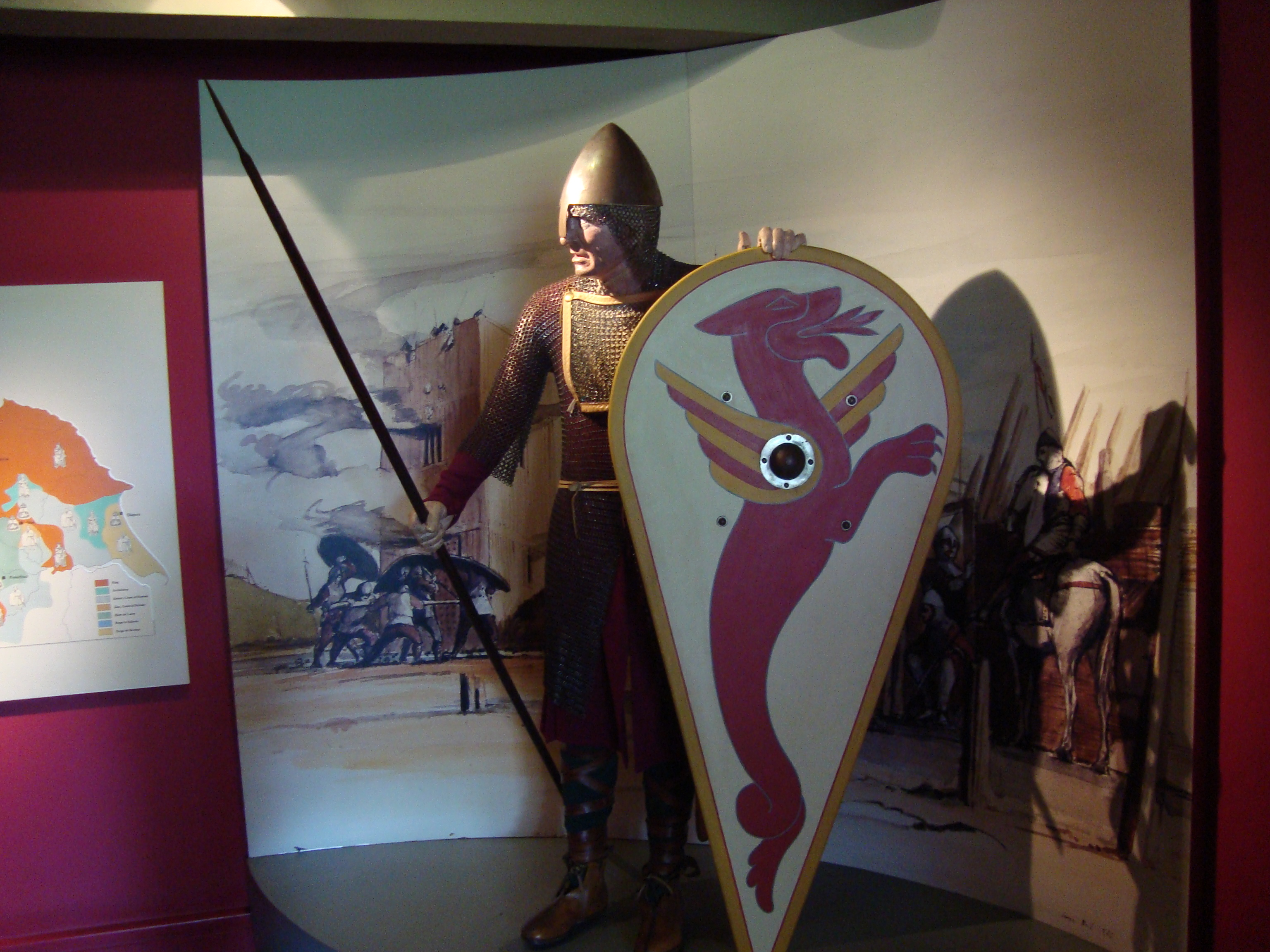 Viking armour in Yorkshire Museum